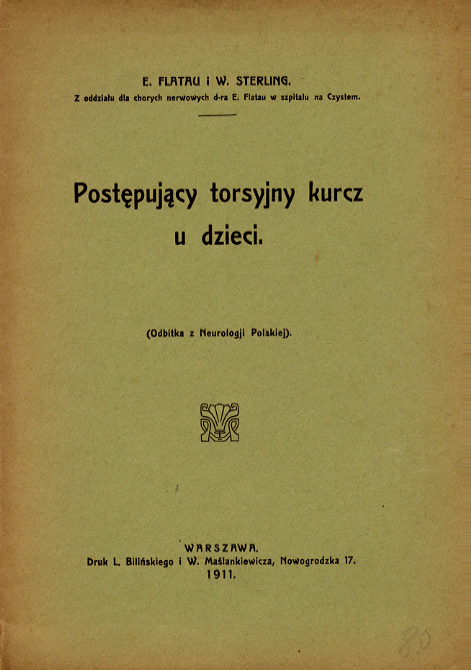 First page of the paper Progressive torsion spasm in children (Progressiver Torsionspasms bie Kindern, Postępujący torsyjny kurcz u dzieci) published in Polish and German in "Neurologia Polska" and "Zeitschrift fur die gesamte Neurologie und Psychiatrie" in 1911